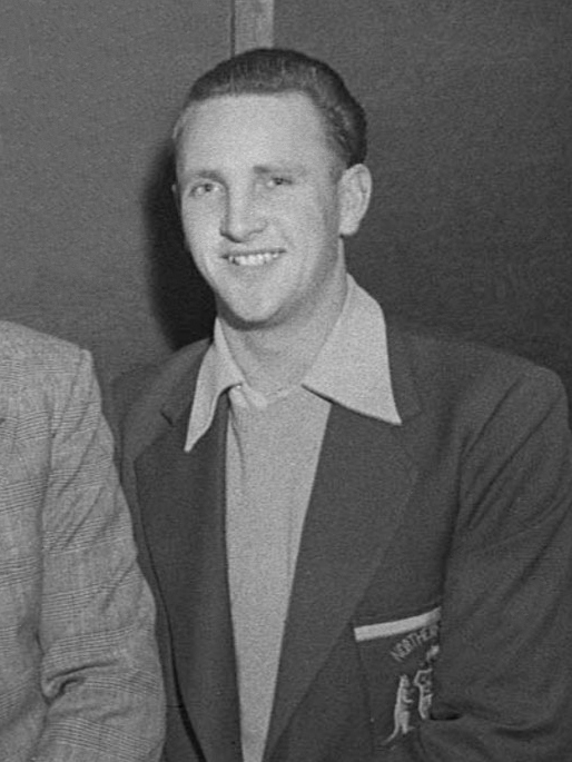 Newcastle member of Australian Rugby League Kangaroos: Brian Carlson